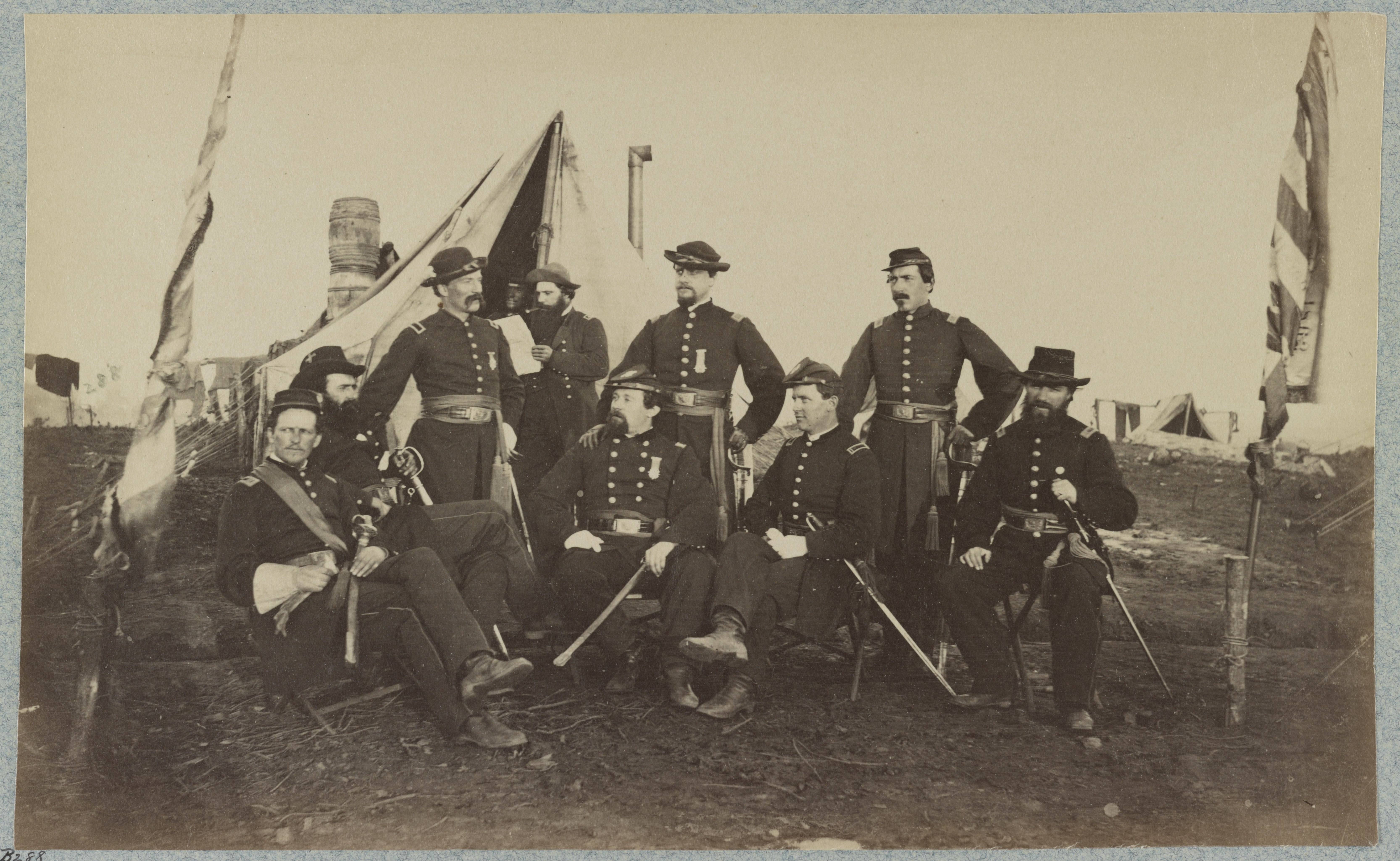 Title: Officers of 139th Pennsylvania Infantry Physical description: 1 photographic print on card mount : albumen. Notes: Gift; Col. Godwin Ordway; 1948.; No. B288.; Title from item.